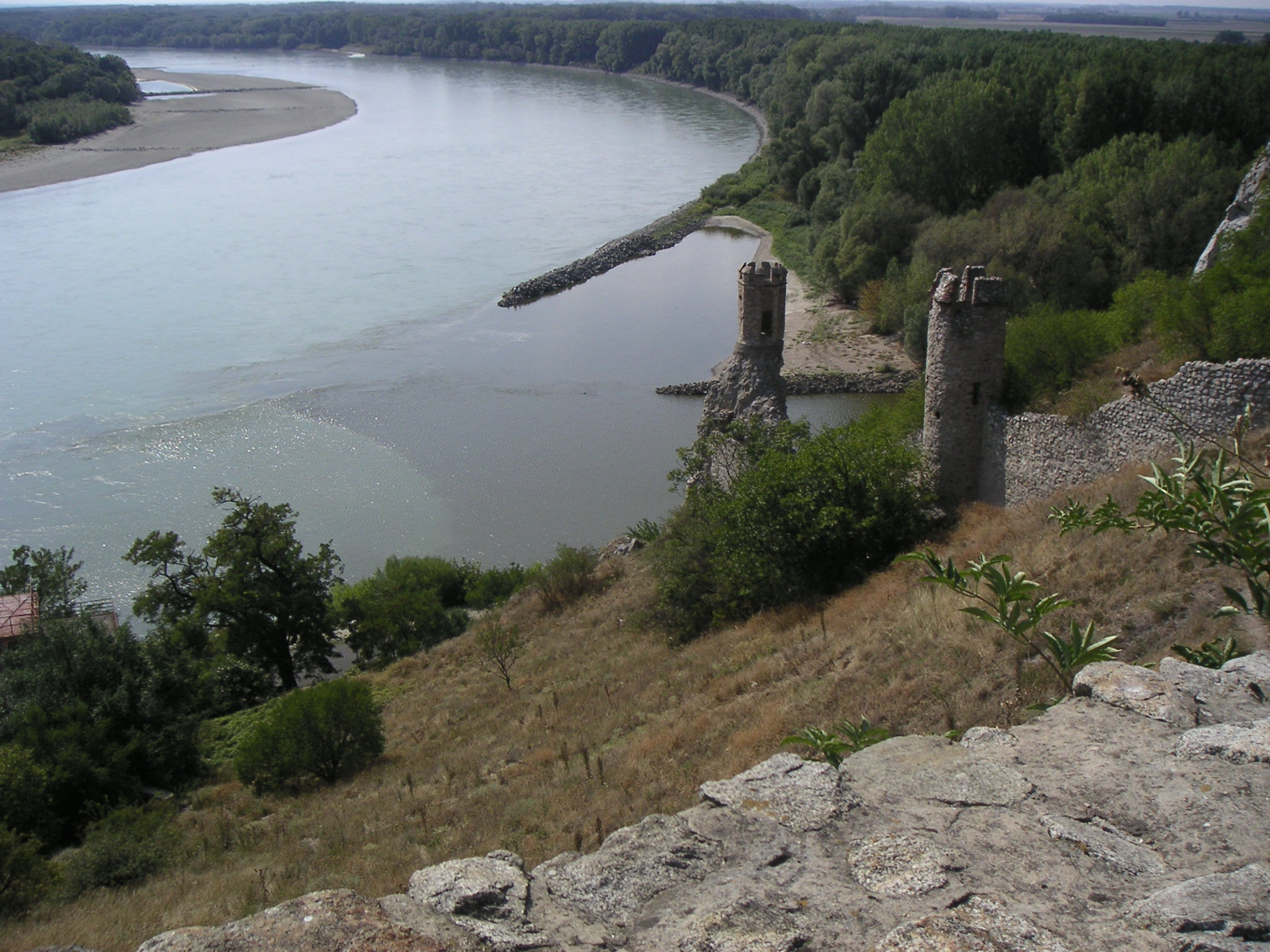 view from the Devín castle on the river Danube selftaken on August, 24., 2003